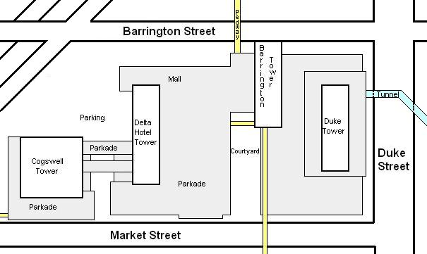 Just a rough map, made from memory with the help of Google Earth.